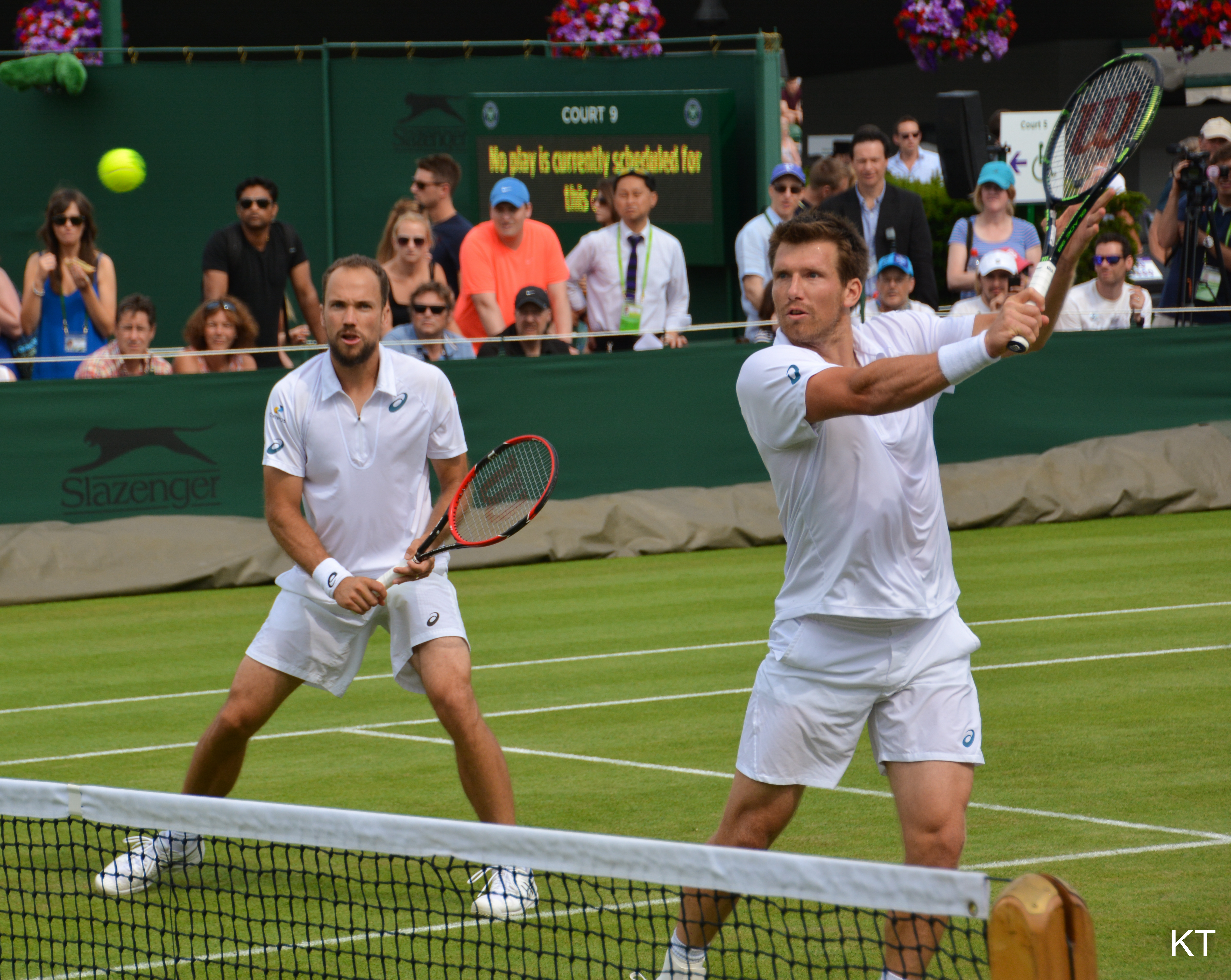 Alex Peya demonstrates the backhand volley. Day 5 of Wimbledon 2015.